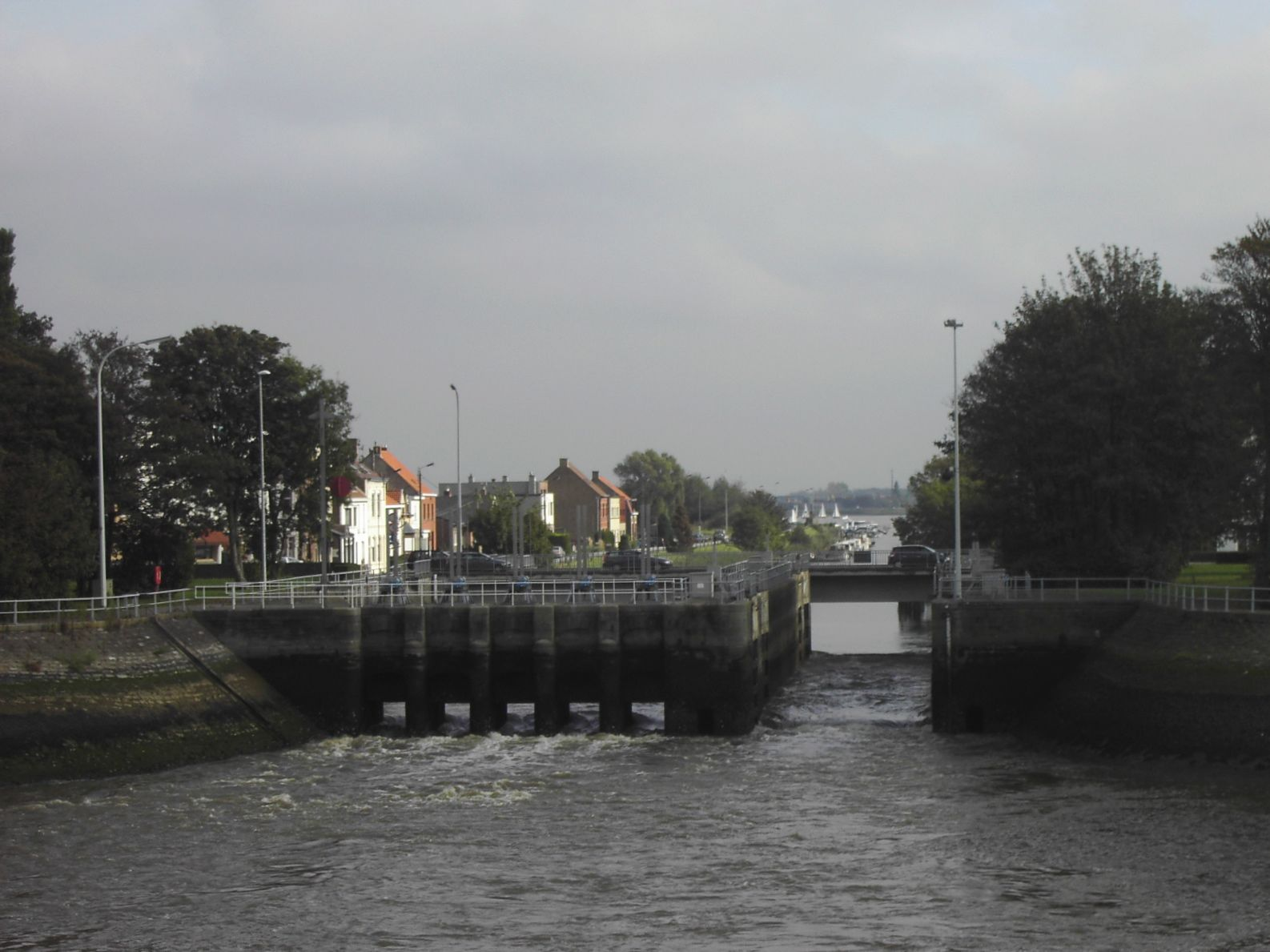 A landward view of the Iepersas with open floodgates and pound lock.